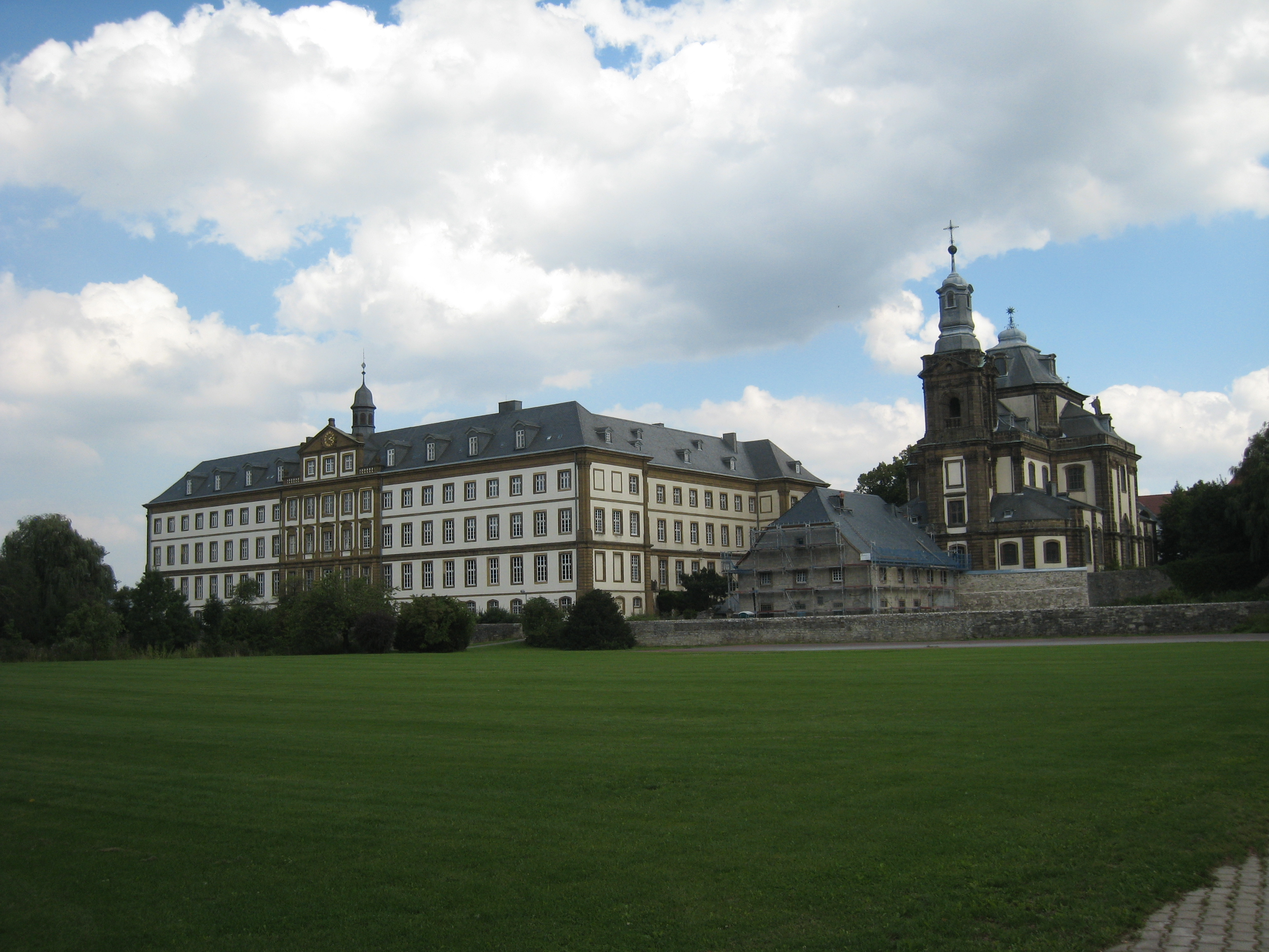 Jesuitenkolleg Büren